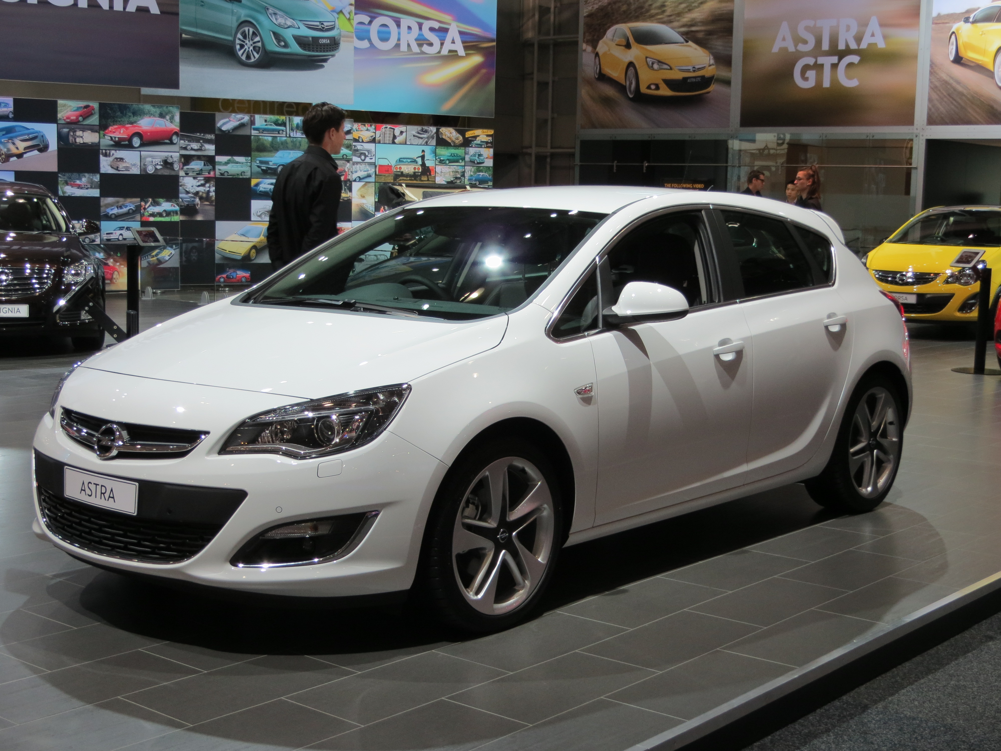 2012 Opel Astra (AS) Sport 5-door hatchback. Photographed at the 2012 Australian International Motor Show, Sydney, New South Wales, Australia.